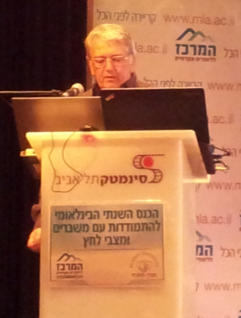 dr. Nir Isar